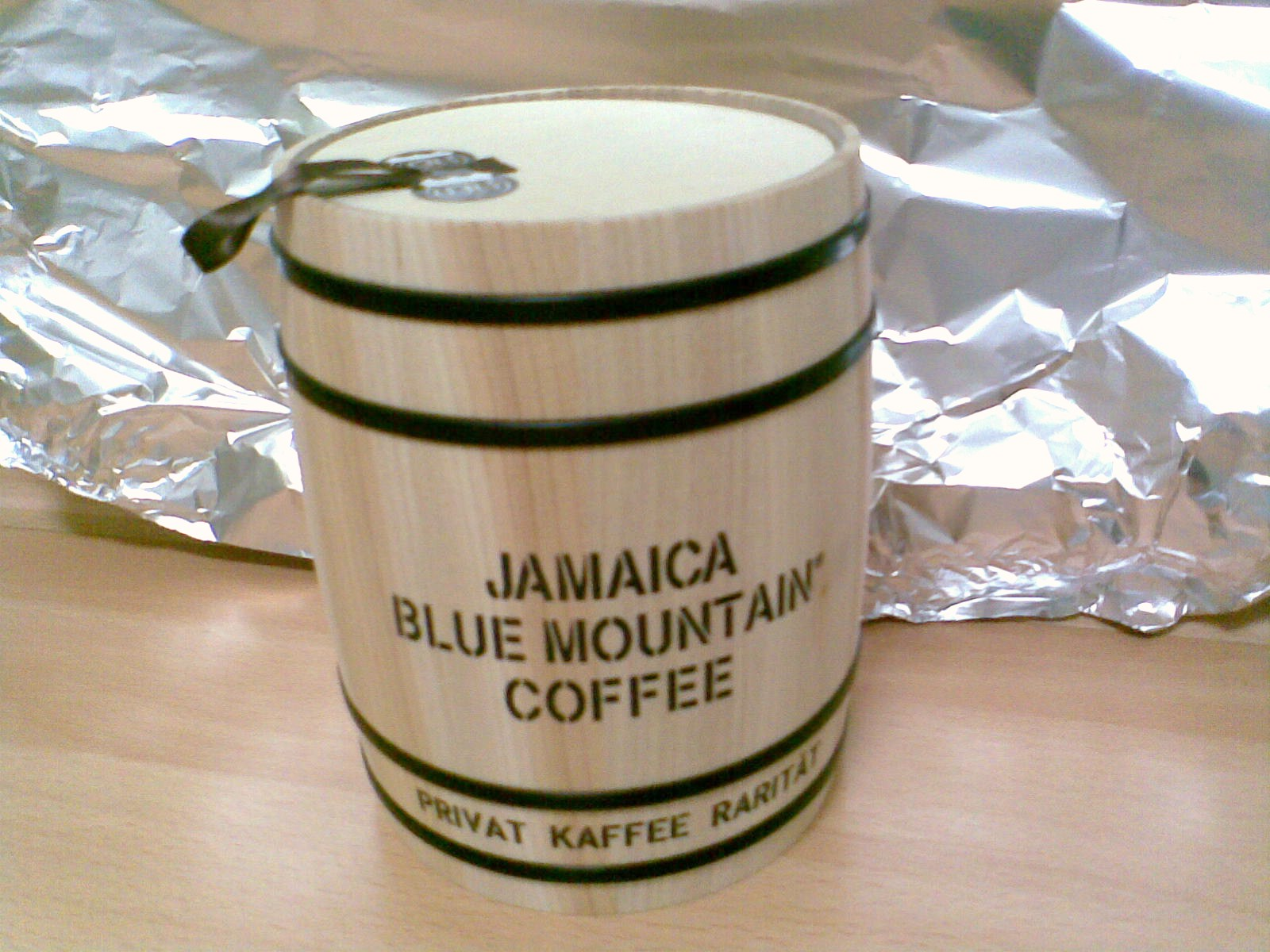 Blue Montain Coffee